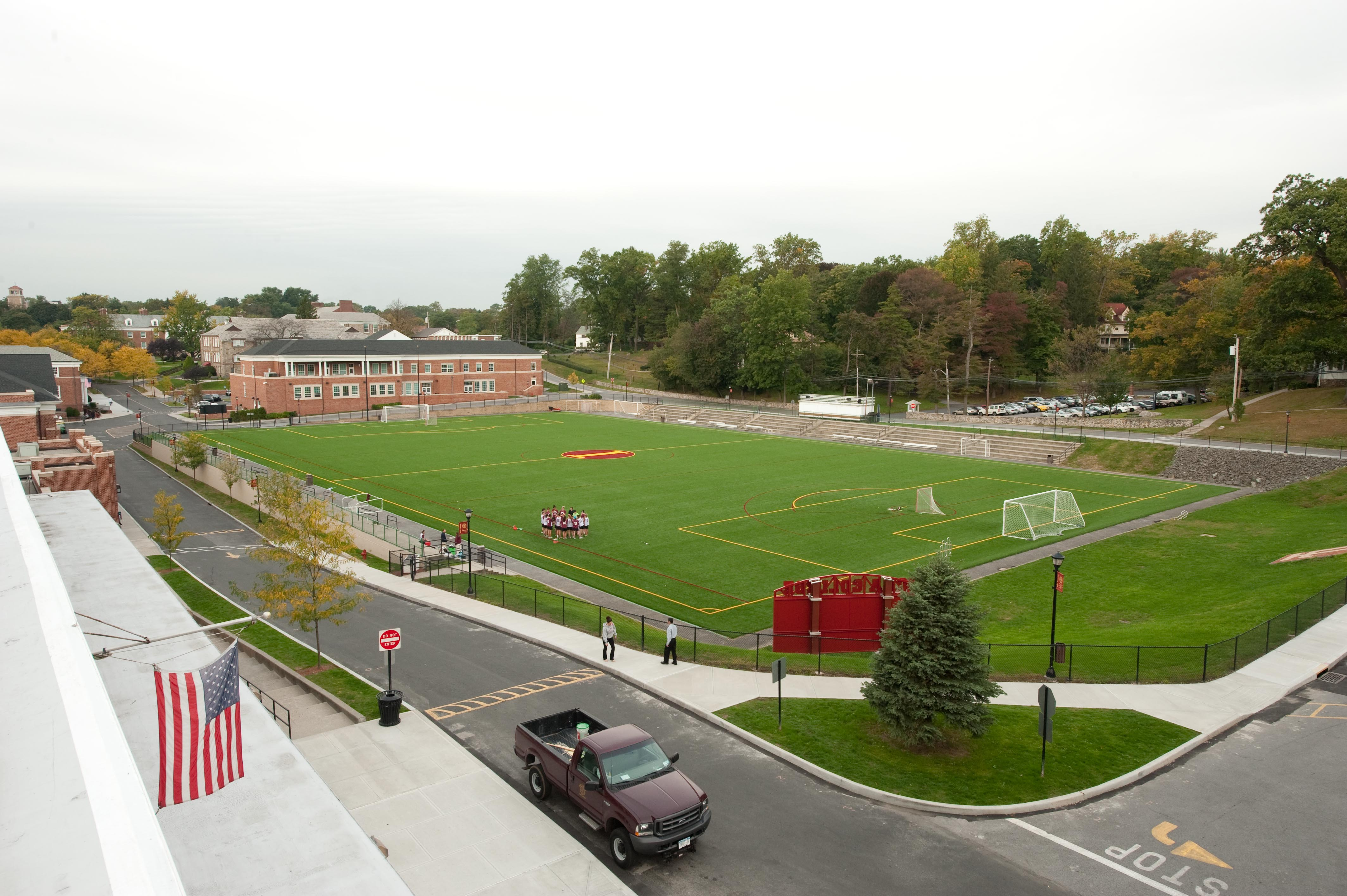 Mazzella Field is home to the Iona varsity men's soccer, women's soccer, lacrosse, and rugby club teams.